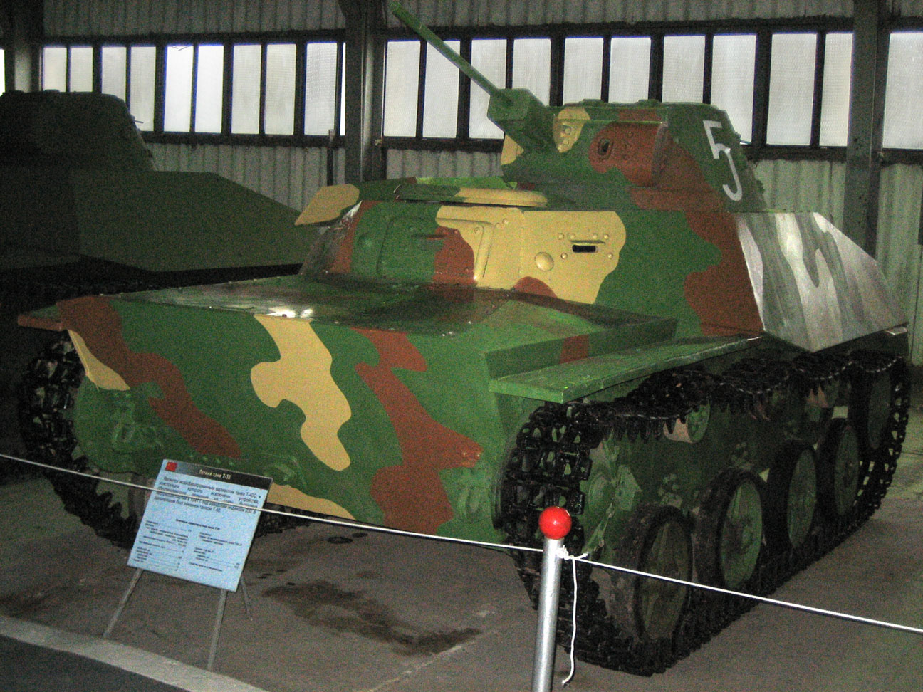 Soviet light infantry tank T-30, displayed in Kubinka Tank Museum. Photo taken on September 9, 2007. Source: Photo by me, User:Saiga20K.